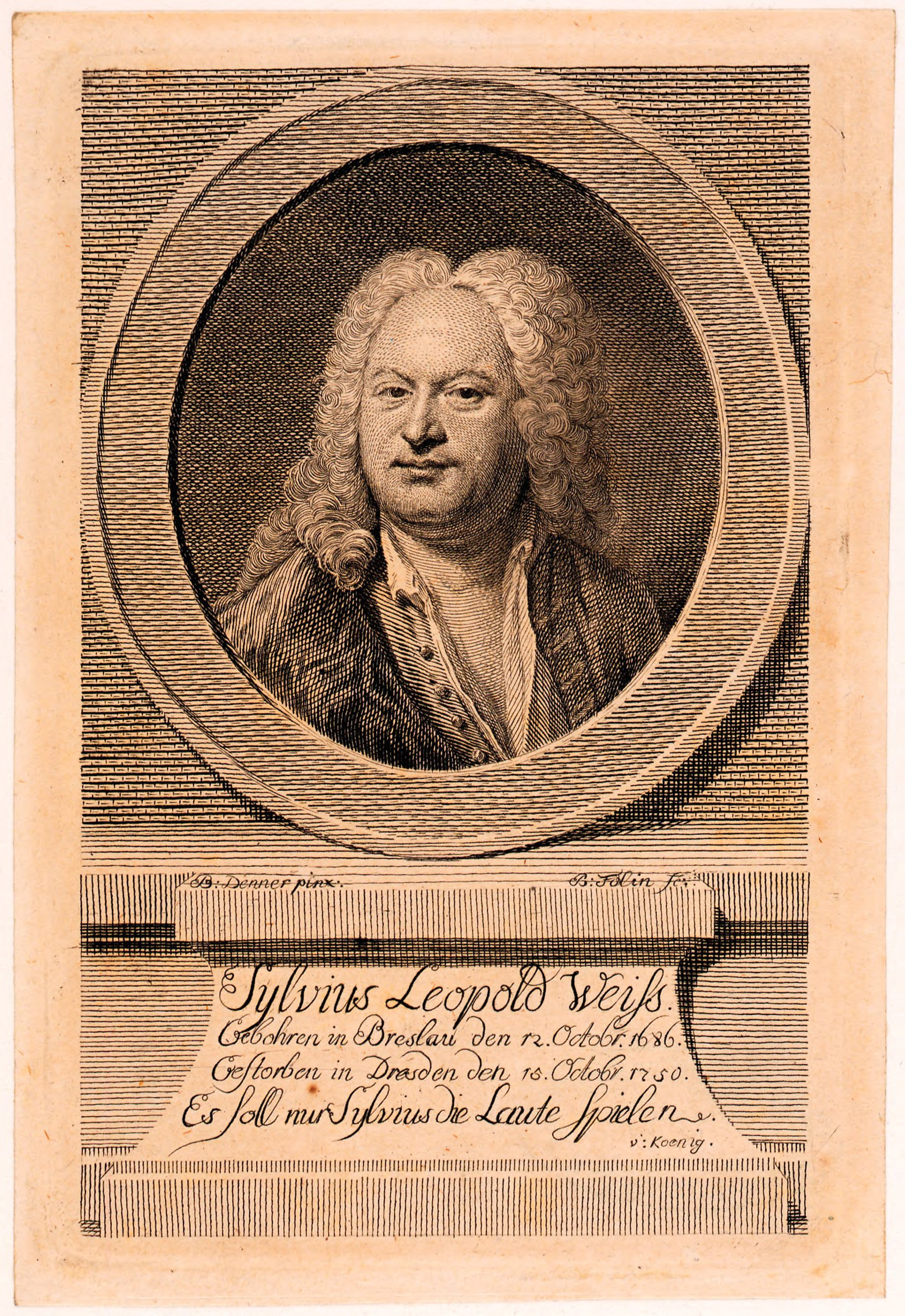 Depicted person: Silvius Leopold Weiss